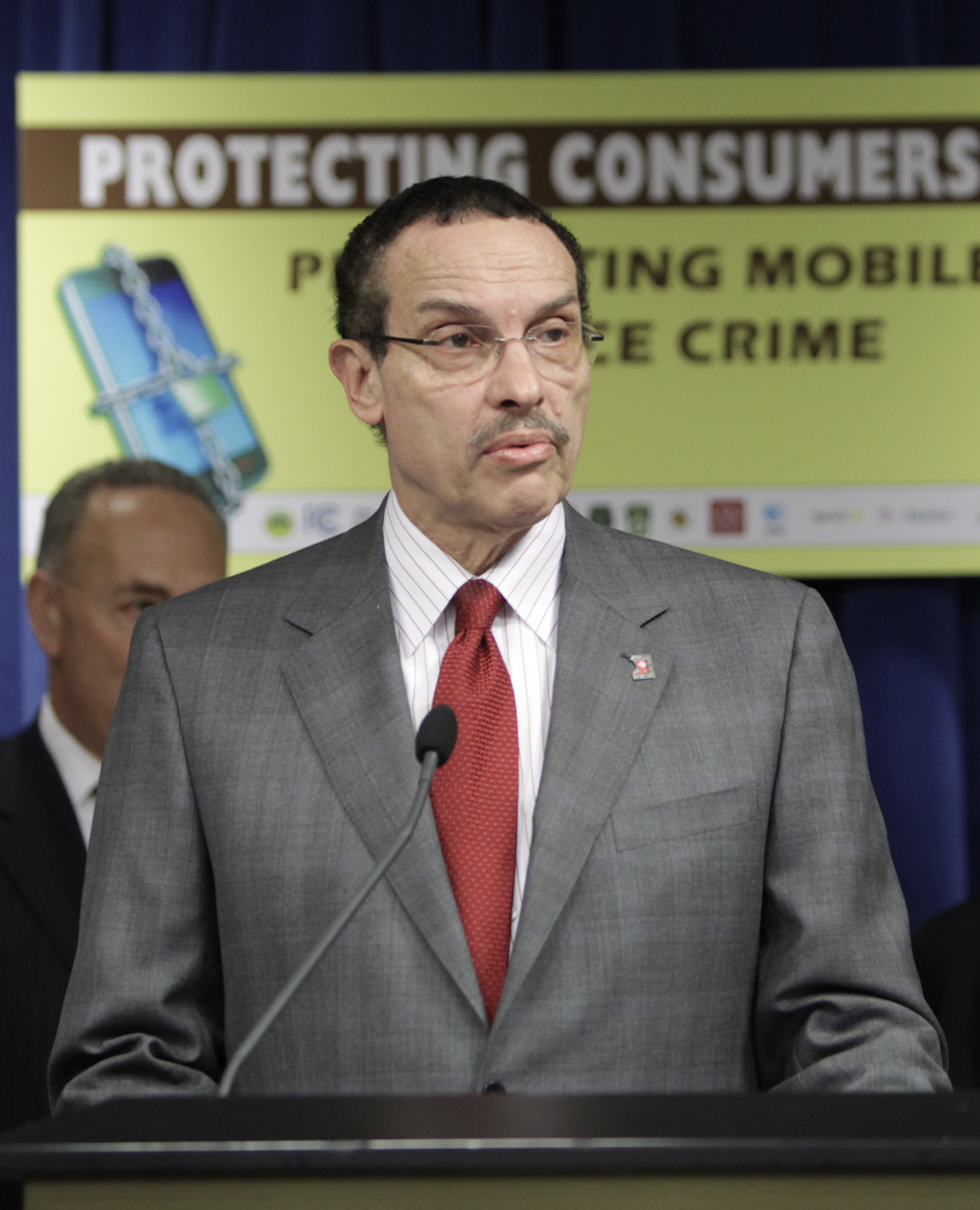 Mayor Vincent C. Gray of Washington, D.C. speaks about protecting consumers and their smartphone devices from theft at the John A. Wilson Building in Washington, DC on April 10, 2012. [Federal Communications Commission Photo / Public Domain]